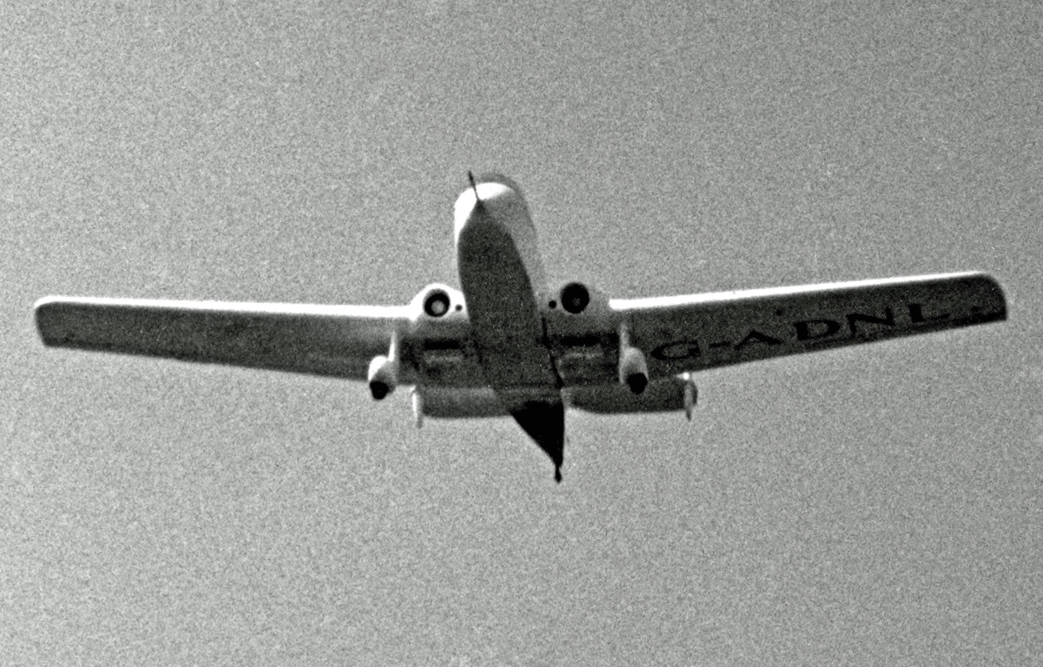 Miles M.77 Sparrowhawk G-ADNL competing in an air race at Leeds Bradford (Yeadon) Airport